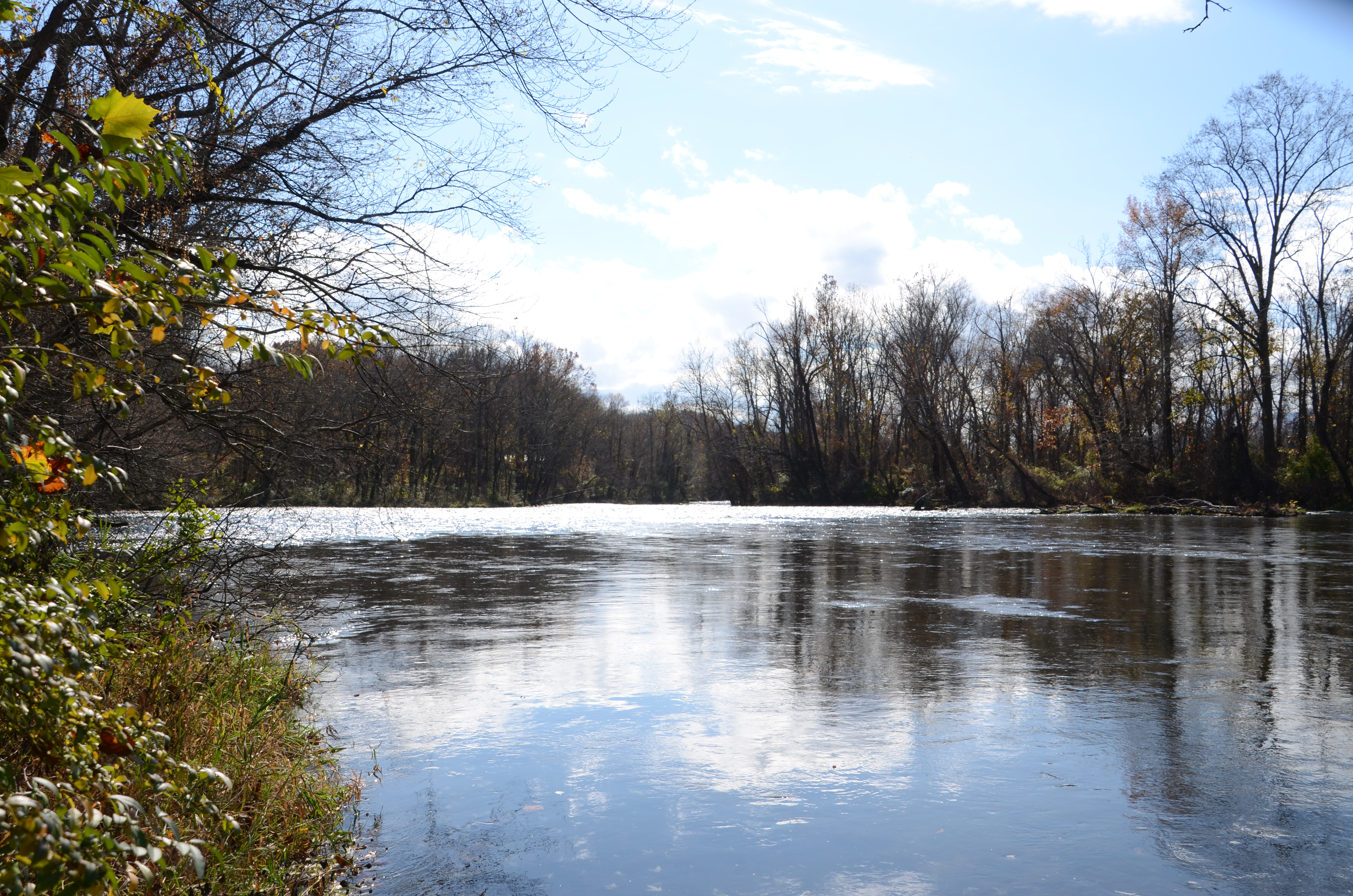 Watauga River in the Sycamore Shoals State Historic Park. The shoals are near the bend in the disstance.